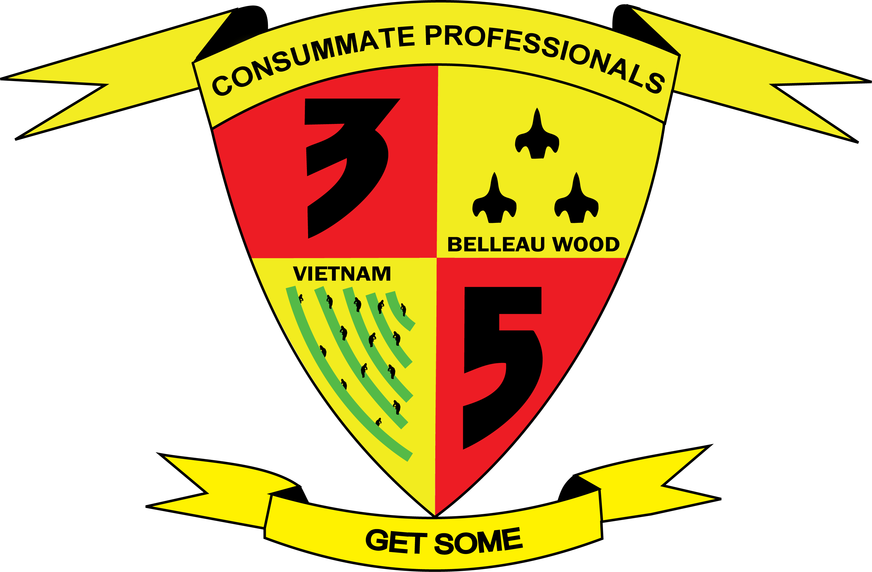 This was the original insignia for 3rd Battalion 5th Marines. Its use was discontinued in 2004 as the battalion's CO, Lt Col P J Malay requested use of the Darkhorse call sign as a homage to the Marines bravery in Korea.